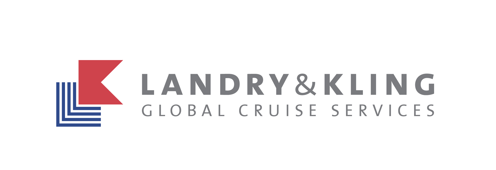 Landry & Kling Global Cruise Services